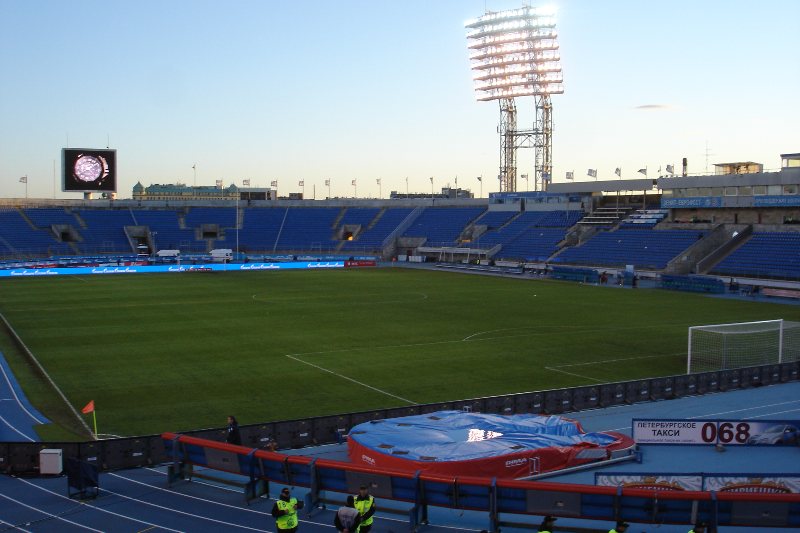 Petrovsky Stadium in Saint Petersburg, Russia. View at the empty sectors after the match Zenit SPb-Bayern Munchen